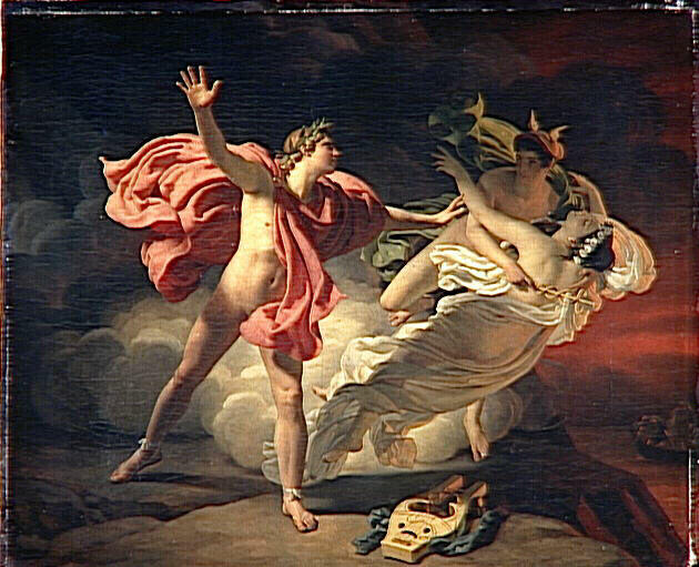 Orpheus and Eurydice